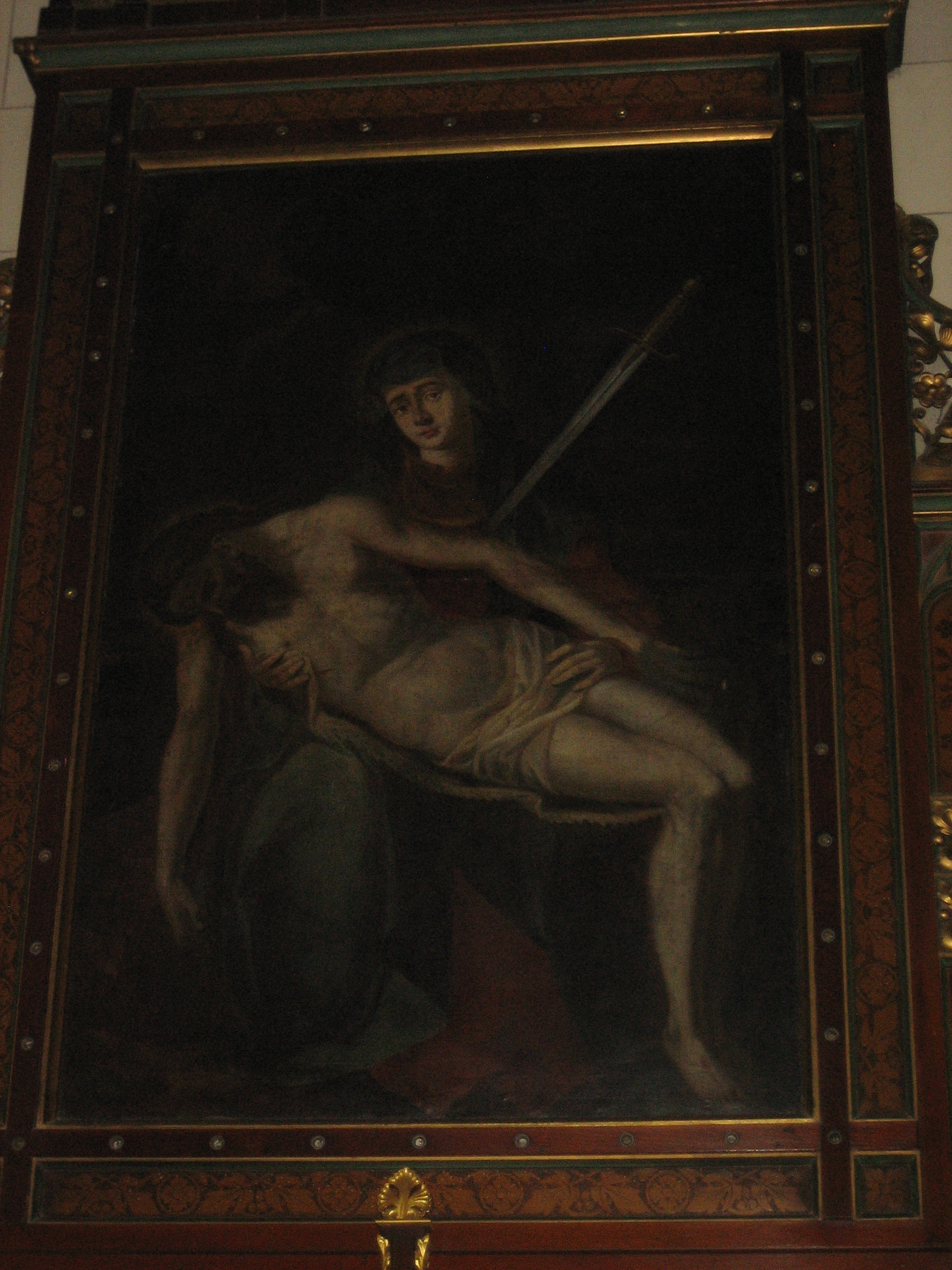 St. Francis Church of the franciscans in Zagreb, Croatia. Altar painting of Our Lady of Sorrows.